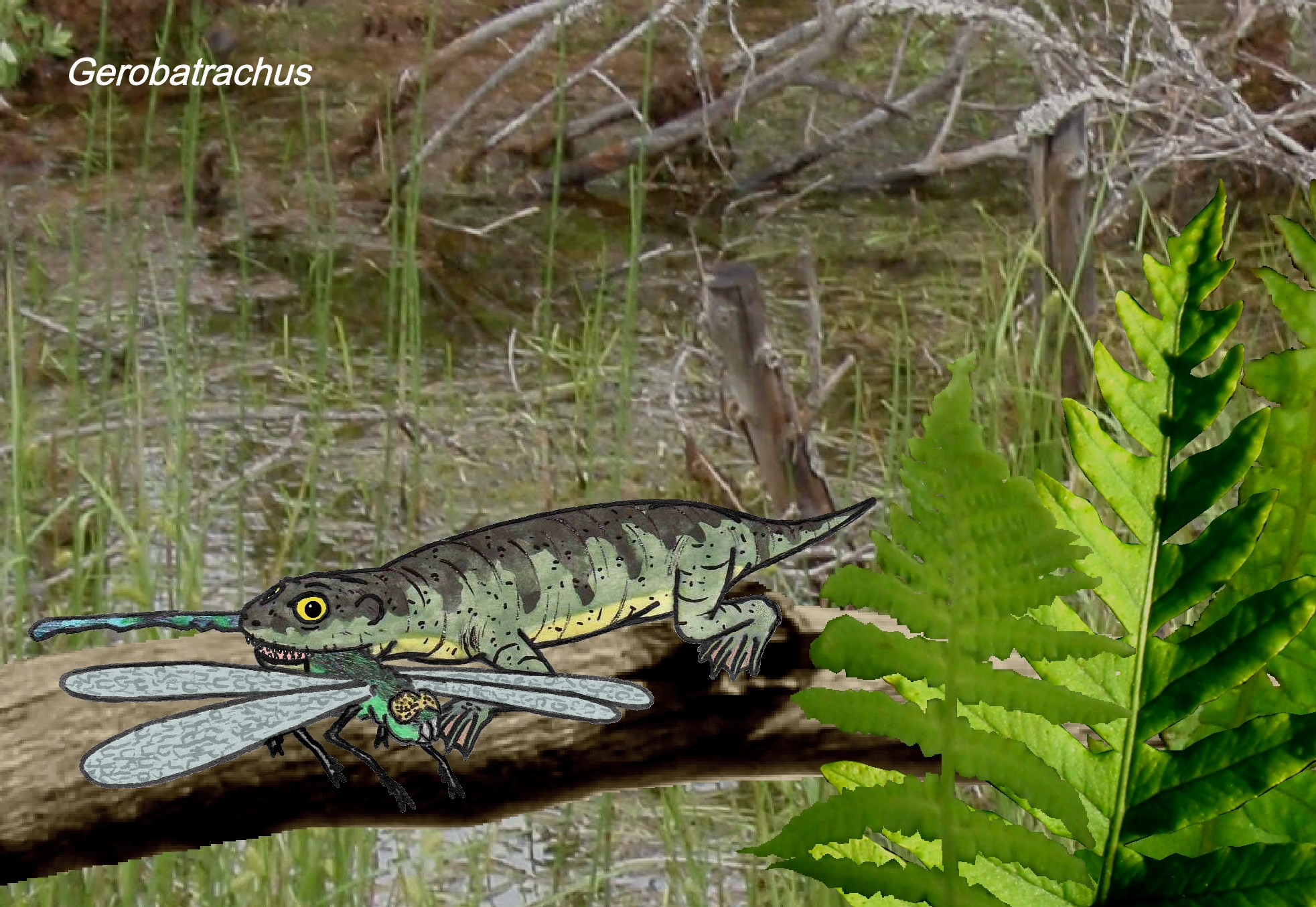 Illustration of the Dissorophoidean amphibian Gerobatrachus with a newly captured dragonfly. Gerobatrachus was found in Texas, and is dated to the early Permian period, and is believed to represent a common ancestor to frogs and salamanders, which is why it 's been called "Frogamander".